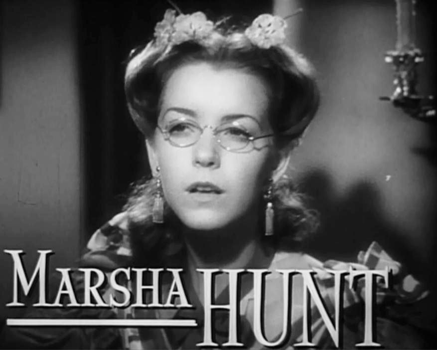 Marsha Hunt in Pride and Prejudice - trailer (cropped screenshot)